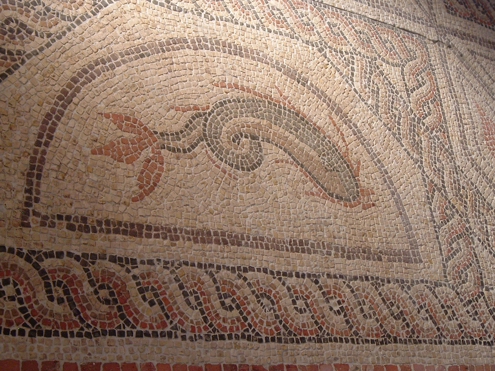 Part of a Roman Mosaic in Winchester City Museum. Discovered in 1878 during diggings at the corner of Little Minster Street and Minster Lane. The creature shown is a dolphin.